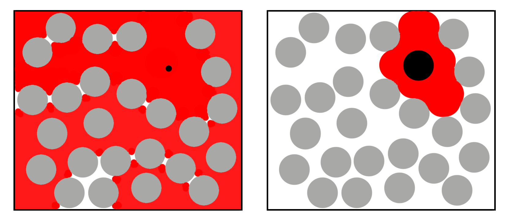 Illustration of the volume of solvent available (red) for two molecules of different sizes (black spheres) in a compartment containing a high concentration of macromolecules (grey spheres). This reduction in available volume increases the effective concentration of macromolecules in concentrated solutions - an effect known as macromolecular crowding.